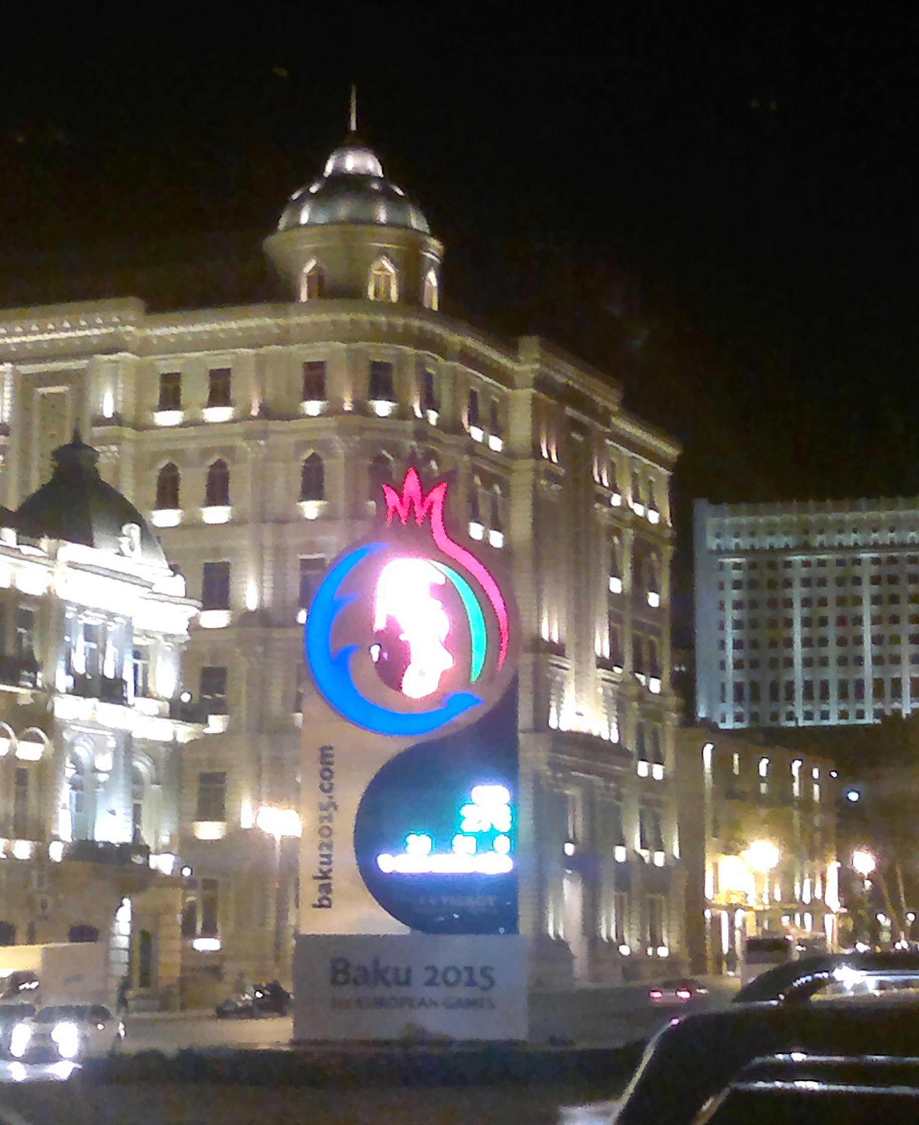 Counter of European Games 2015 logo